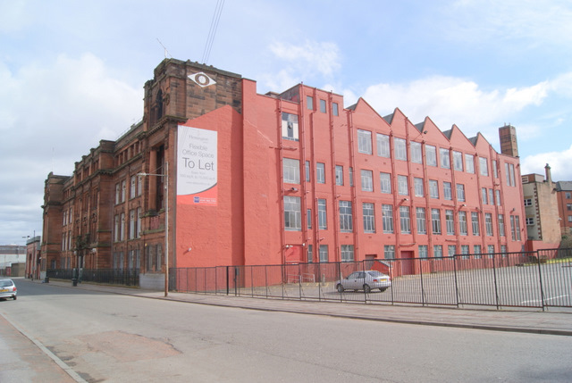 Former North British Locomotive Company HQ, near to Springburn, Glasgow, Great Britain. This building, designed by famous Scottish railway architect James Miller, opened in 1904 as the HQ of the North British Locomotive Company who had the largest locomotive works in Europe at that time. The works finally closed in 1961, NBLC having failed to make a successful transition from steam to diesel power. The building was bought by Glasgow Corporation and has served as a college under various different names until the present day North Glasgow College moved out in 2009.